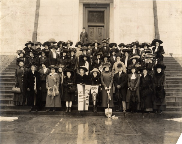 In early 1910, Louise Thomas, principal of Lenox Hall, a private school for girls in St. Louis, announced that the school would be moving to a new building to be constructed in University City. Teachers and students gathered in the rain on March 2, 1910 for the ground breaking ceremony. In this photograph which appeared in "The Woman's National Daily" on March 3, 1910, the group posed on the steps of the Woman's National Daily Building with their school pennants. Edward Gardner Lewis is in the front row on the right.